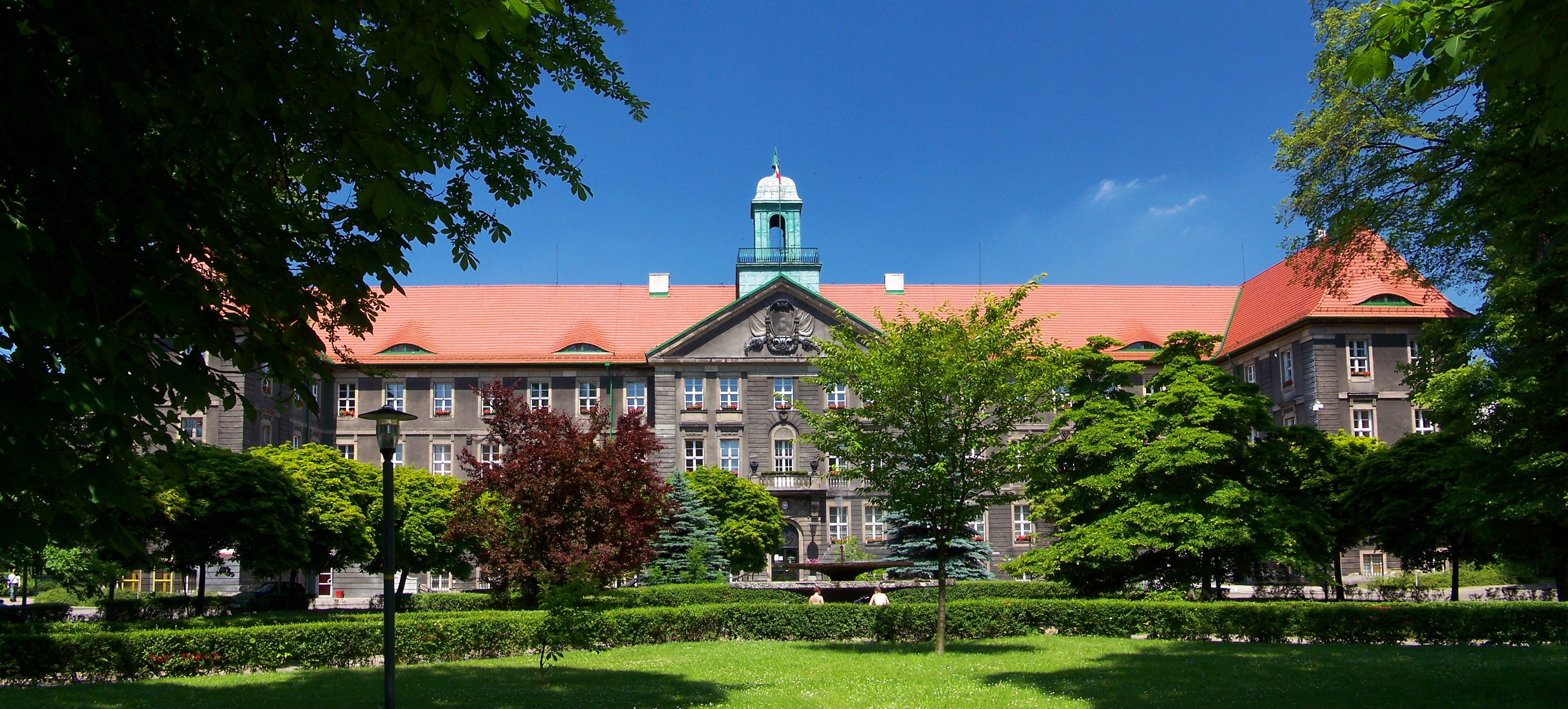 City department in Bytom.